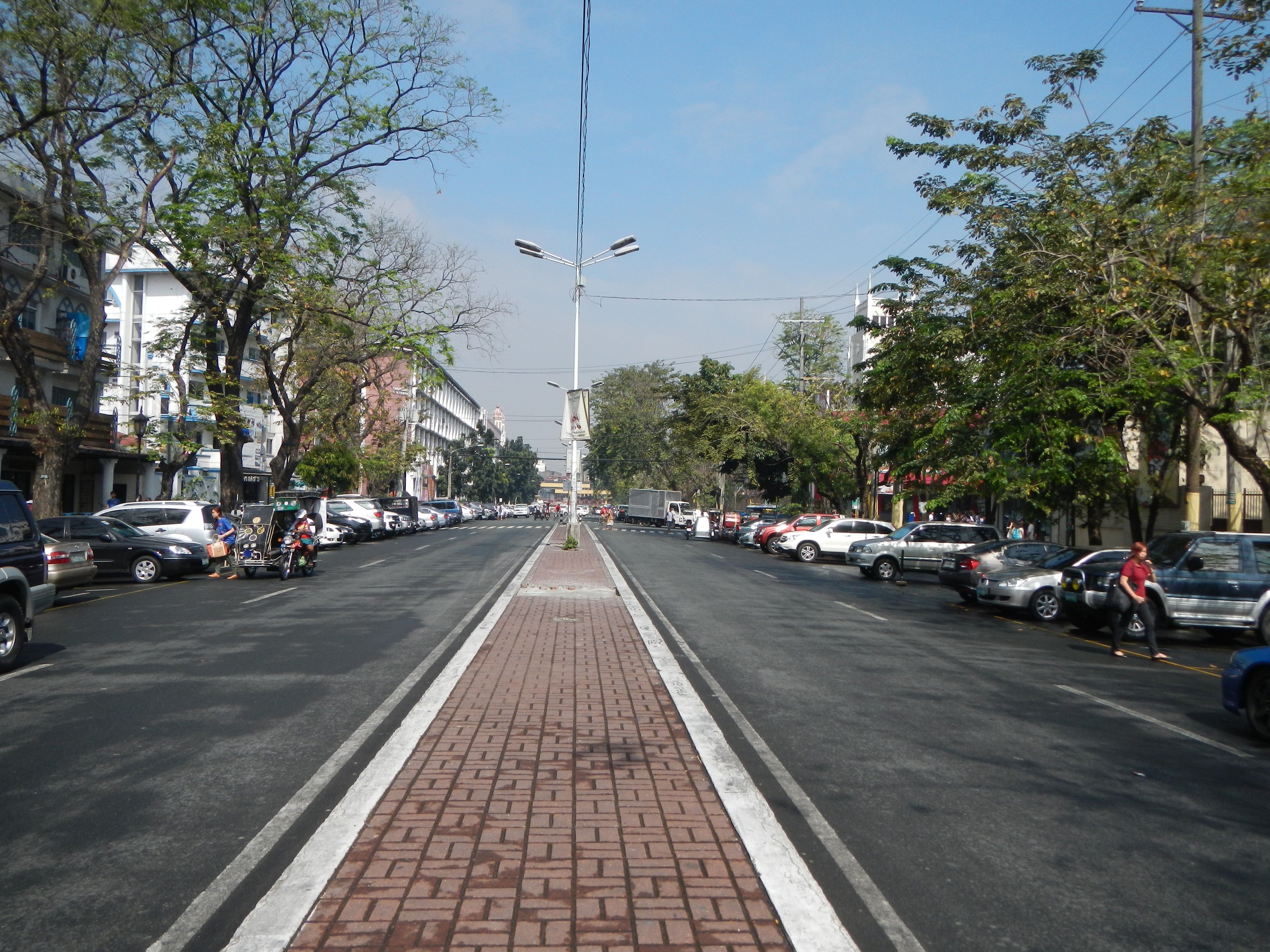 Photos of Centro Escolar University with the Historical Markers of Carmen de Luna, along Mendiola Street[1] is a short thoroughfare in the district of San Miguel, Manila, Metro Manila, the Philippines close to Malacañan Palace in front of the Abbey of Our Lady of Montserrat of the San Beda College and beside La Consolacion College Manila Mendiola Sreet Manila.